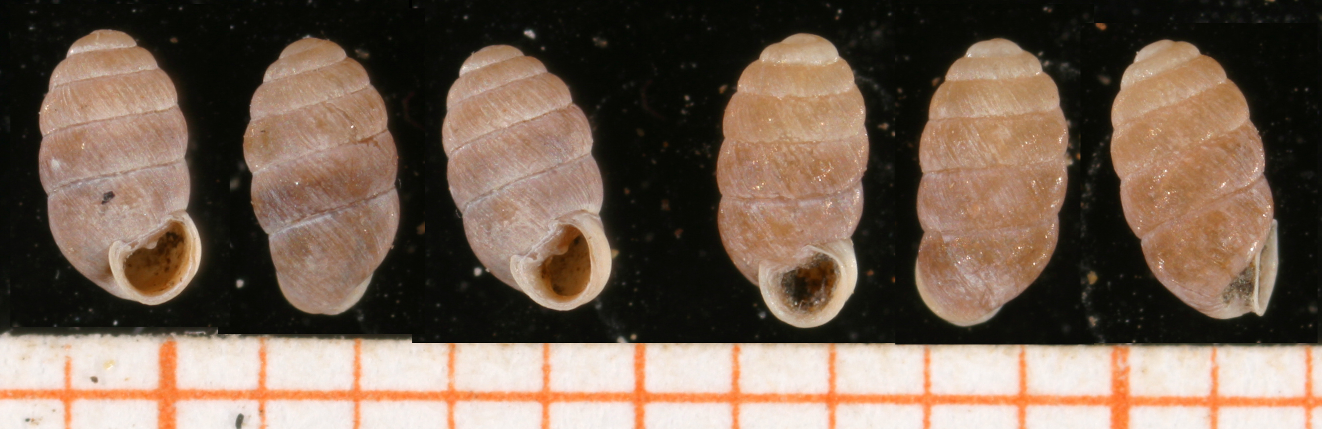 Shells of Pupilla muscorum (Linné, 1758). Locality: palace of Festós, S central Crete, Greece.